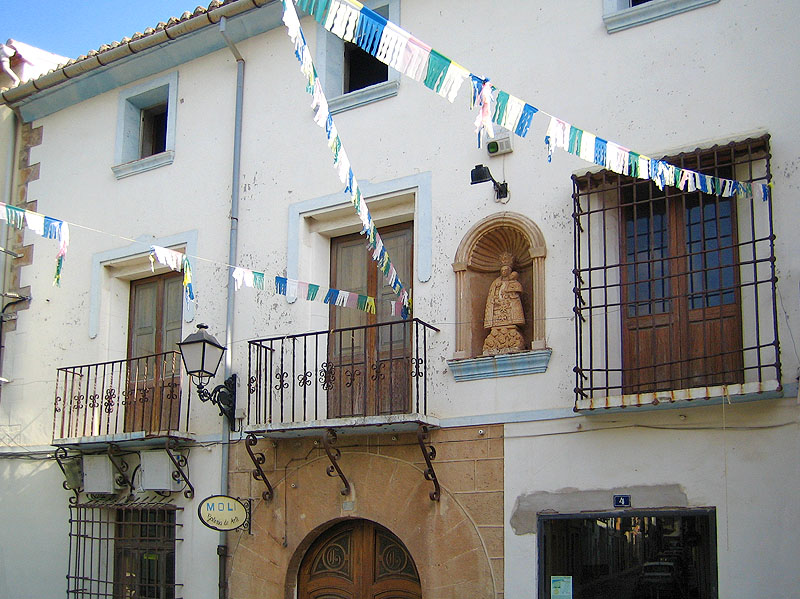 Typical whitewashed house in Xaló, county Marina Alta, Region of Valencia, Spain